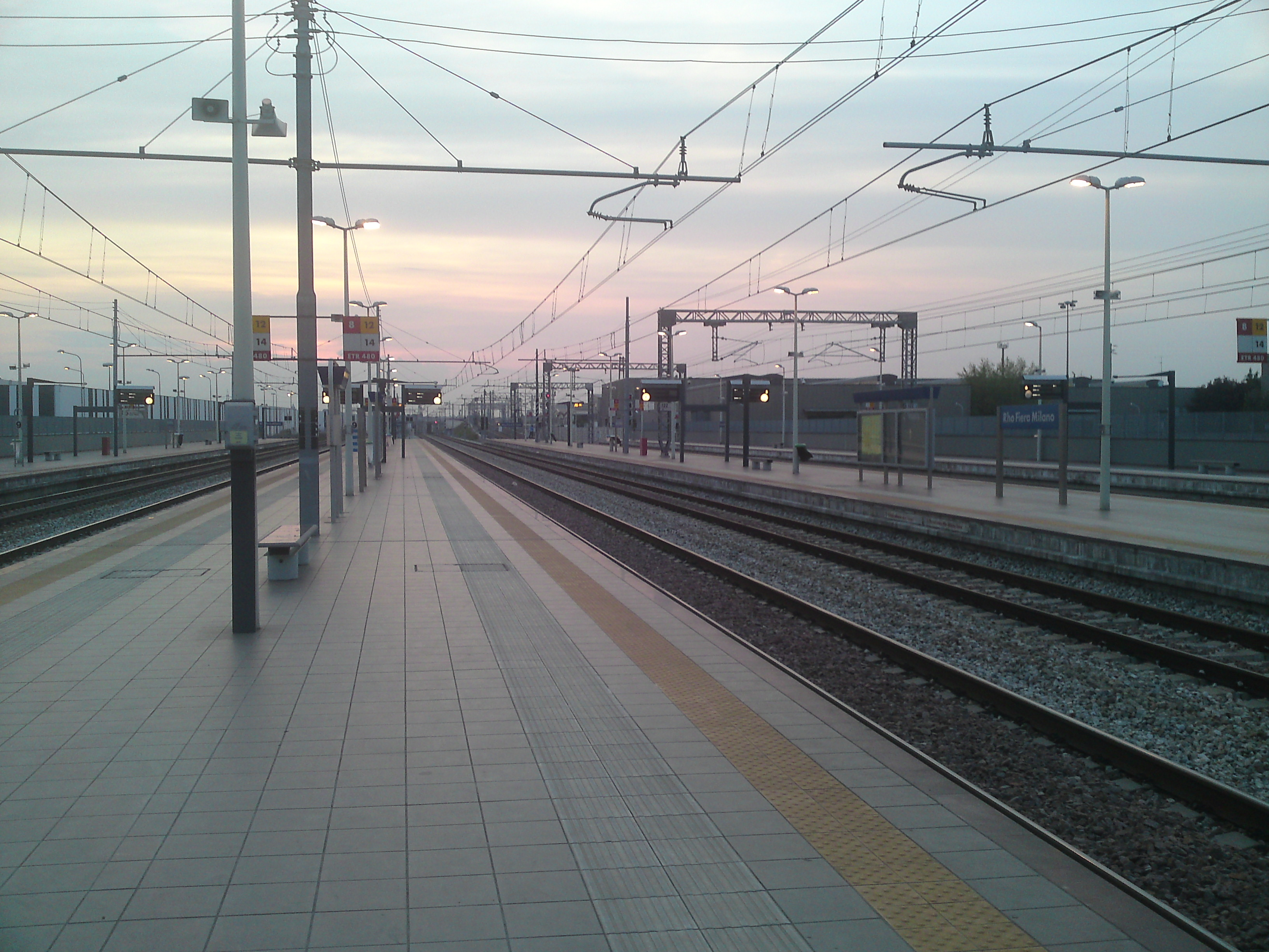 Rho-Fiera Milano railway station